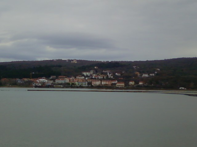 Village Soline in Soline bay on island Krk in Croatia